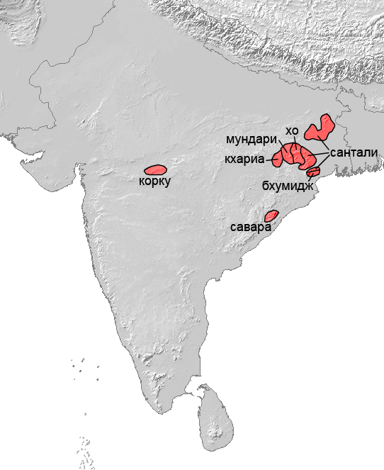 Area where Munda languages are spoken